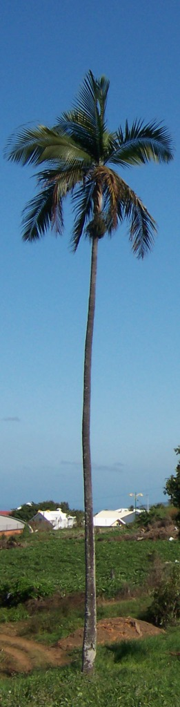 Princess (or Hurricane) palm (Dictyosperma album) - individual, Réunion island